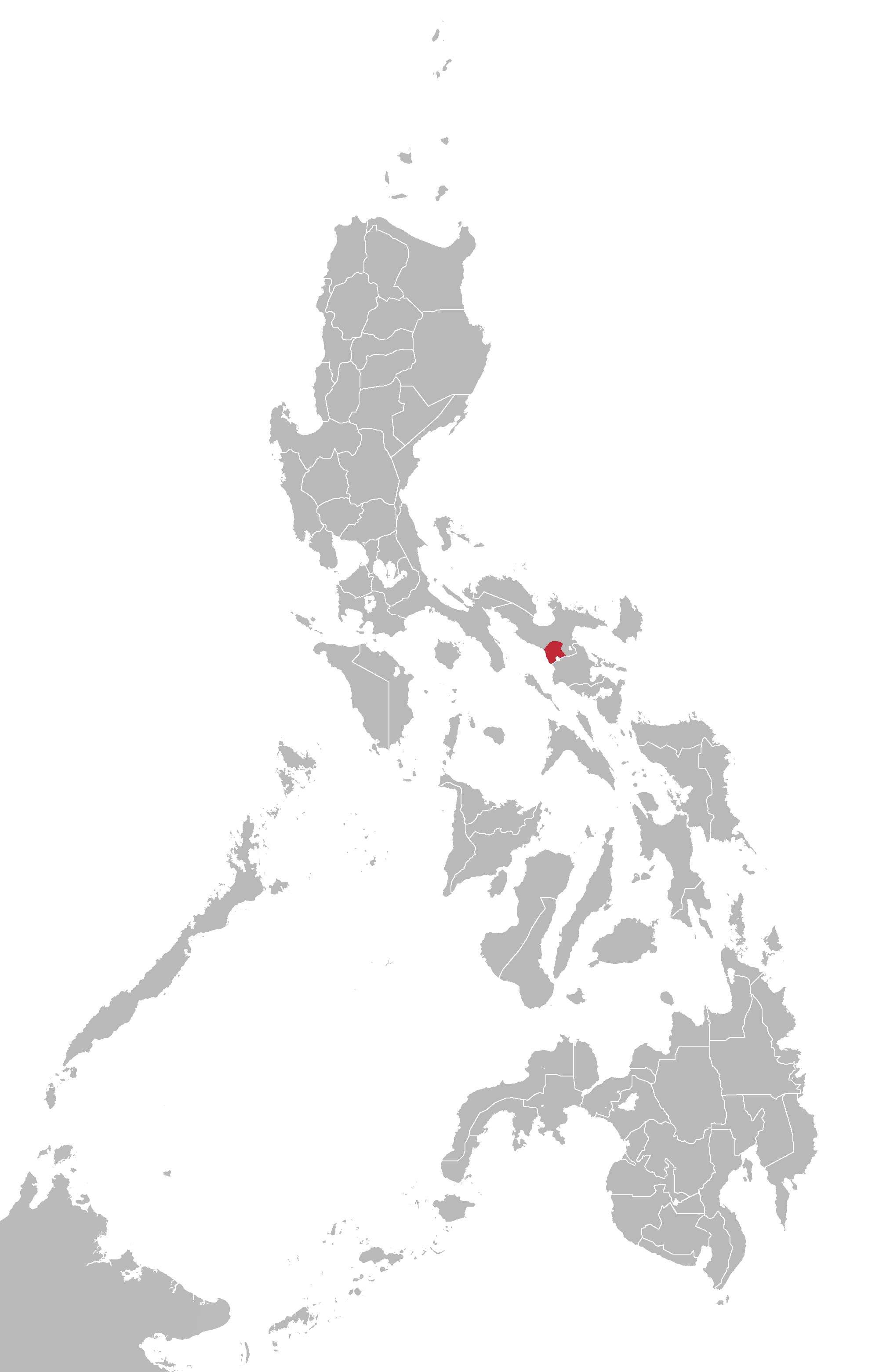 Rinconada language map based on Ethnologue maps